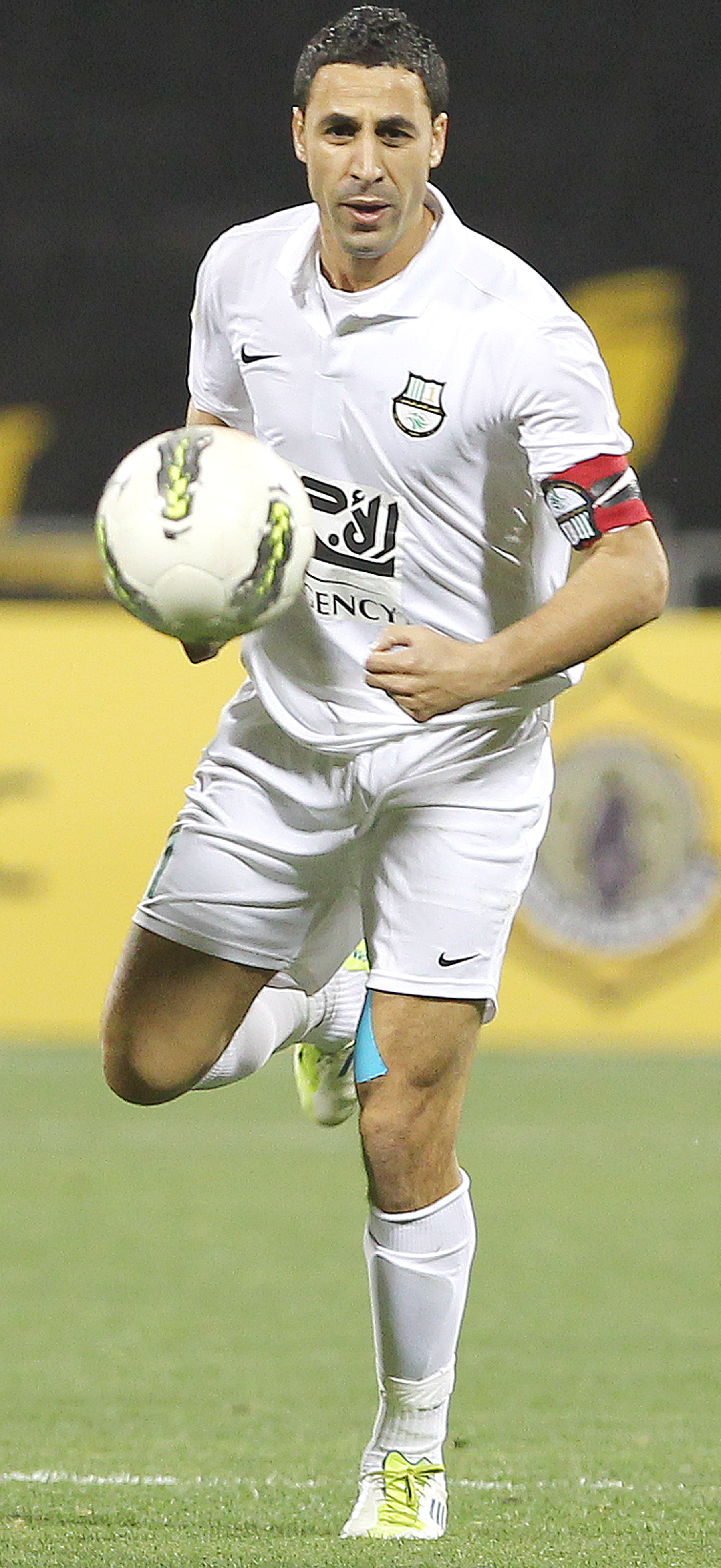 Al Ahli's Moroccan professional Hicham Eboucherouane during a Qatar Stars League match. Picture by AK Bijuraj